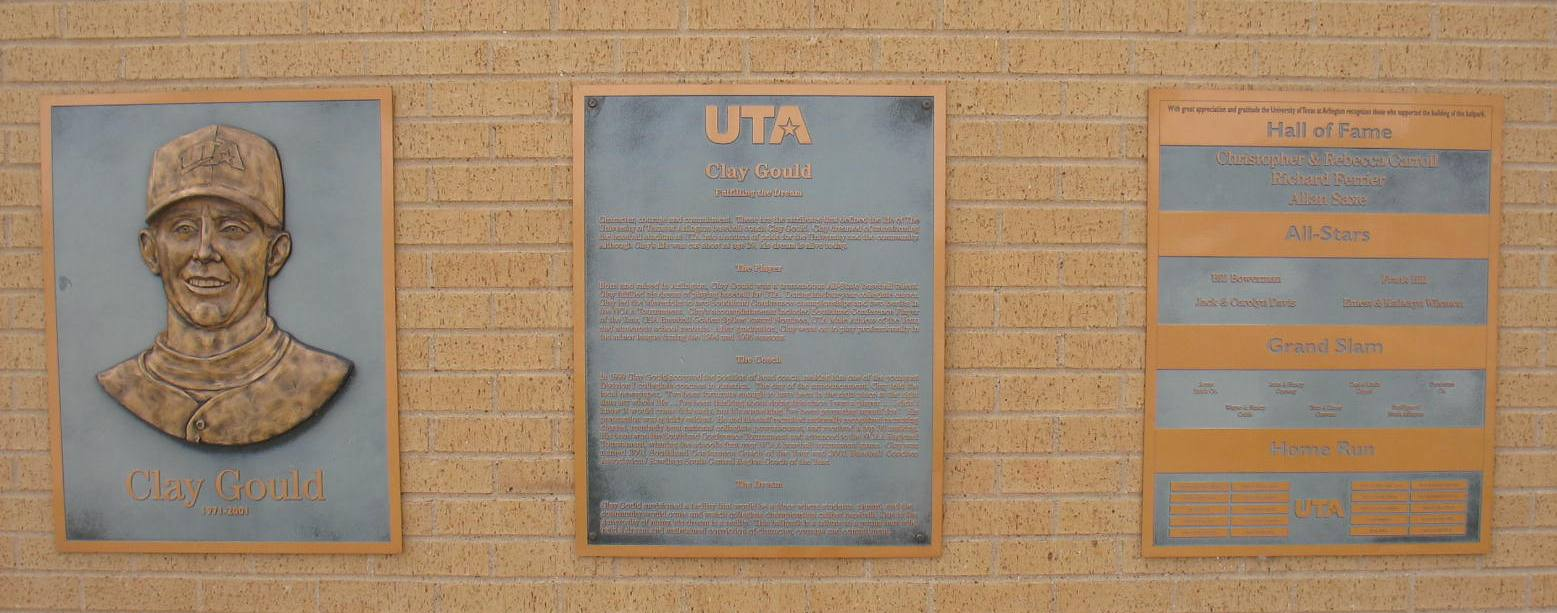 The memorial Clay Gould and fundraising plaques outside the entrance to Clay Gould Ballpark.